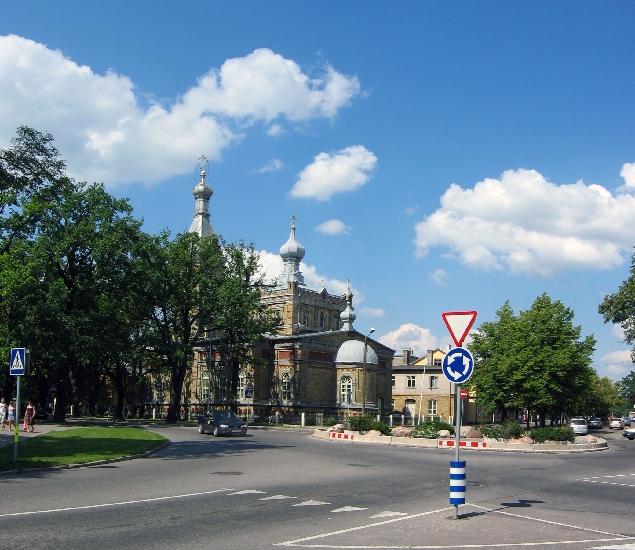 The orthodox church of Pärnu in Estonia